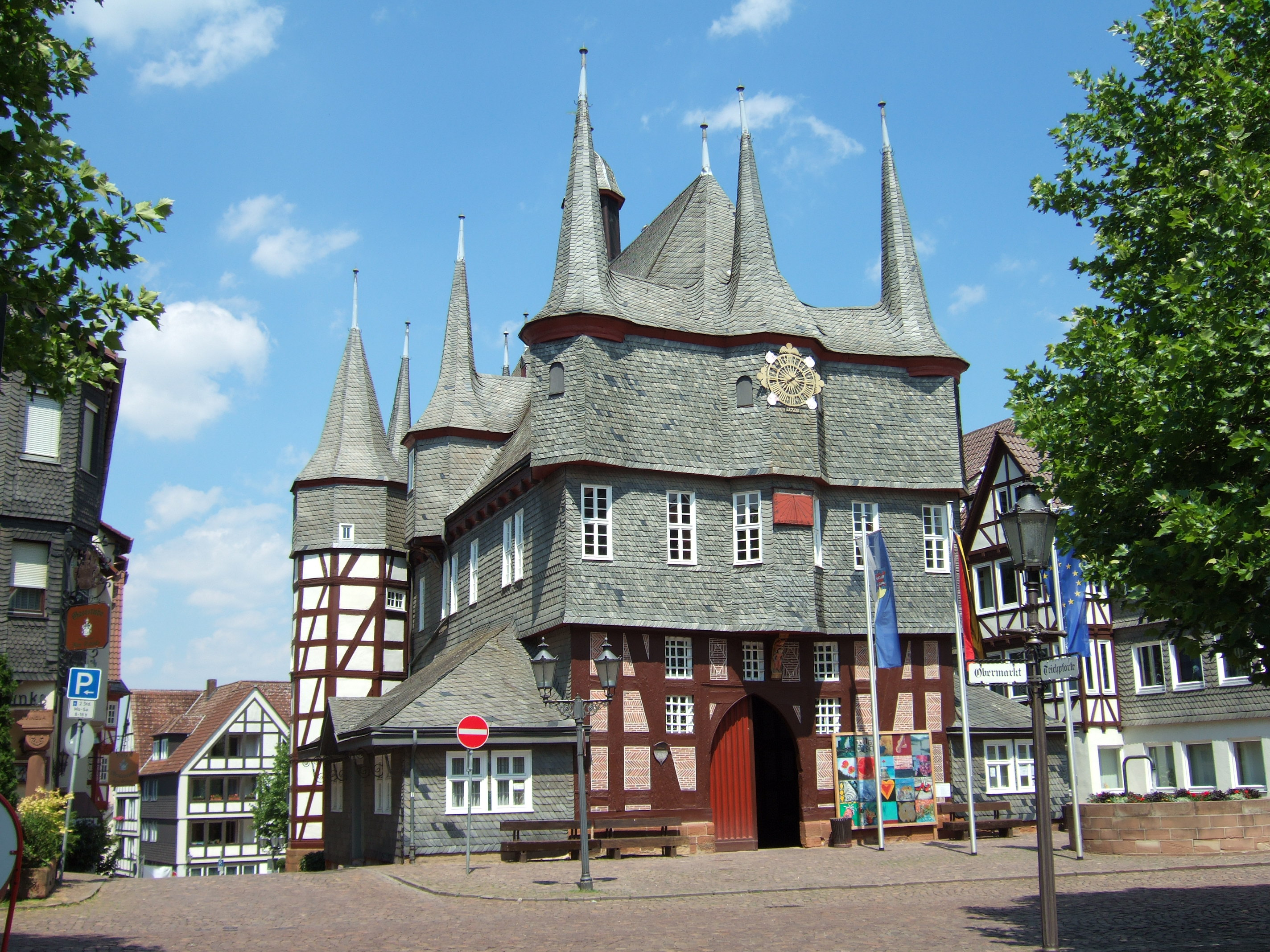 Town hall with ten towers, Frankenberg (Eder), Germany